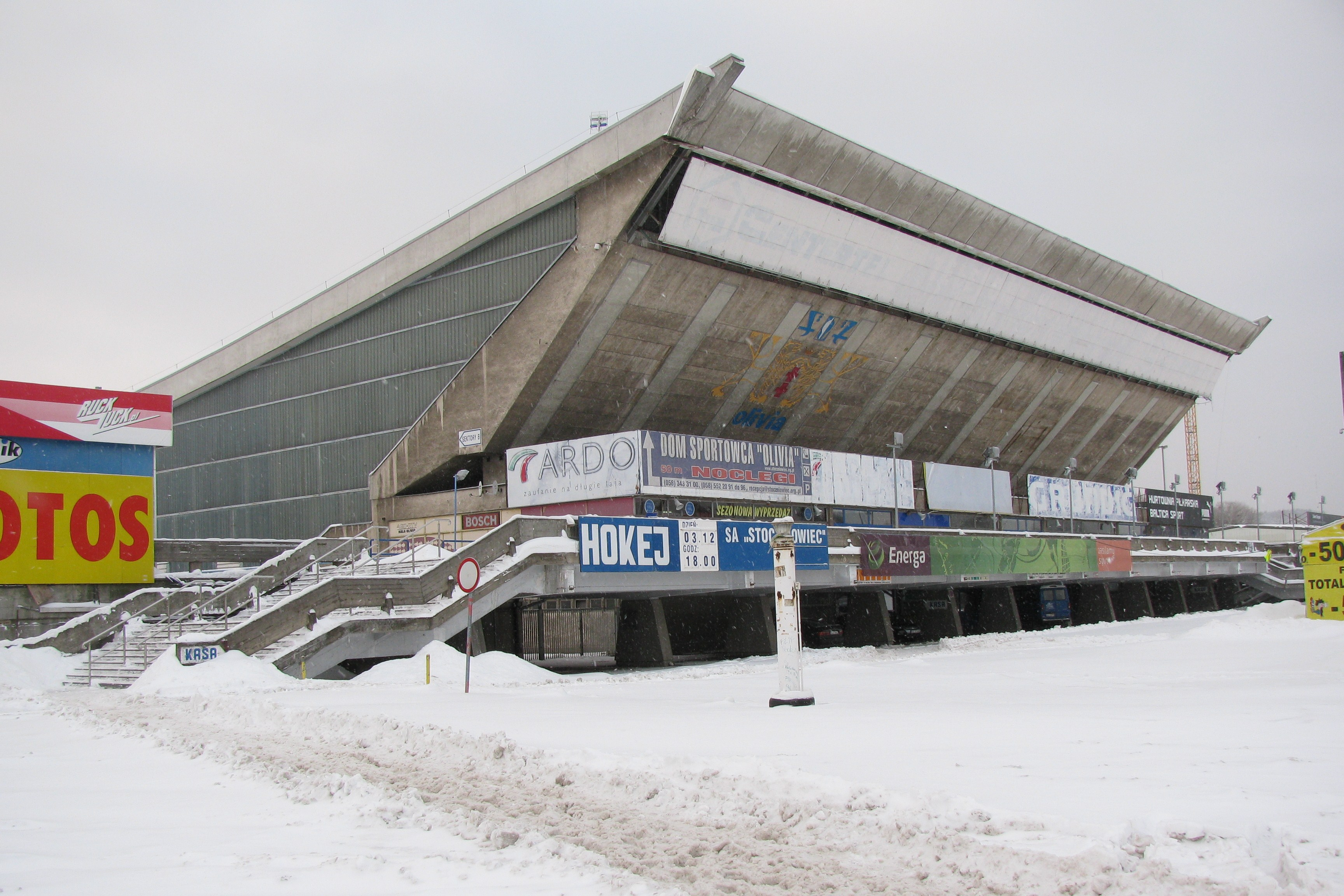 Hala Olivia - an arena in Gdańsk, Poland.